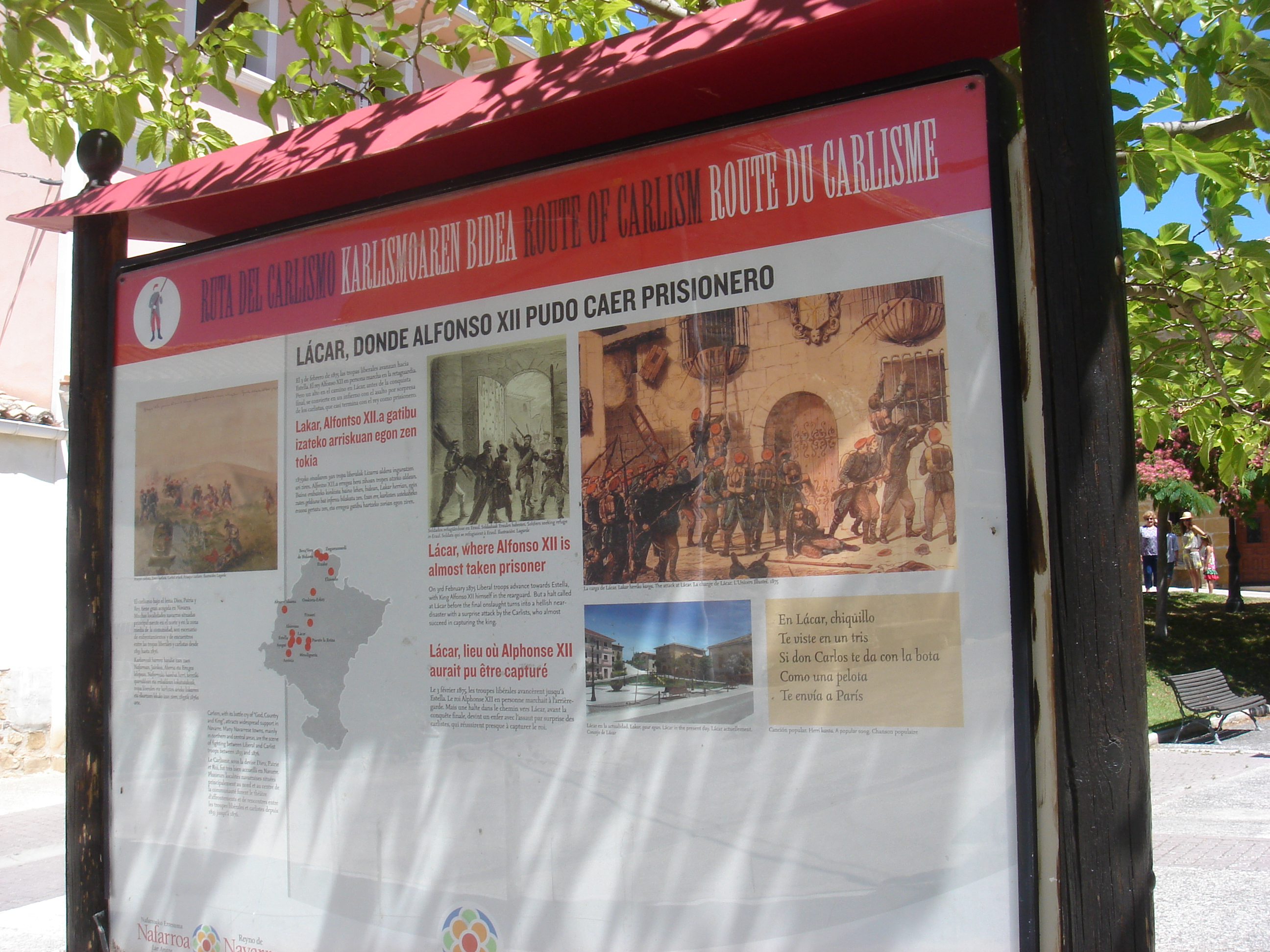 Lacar